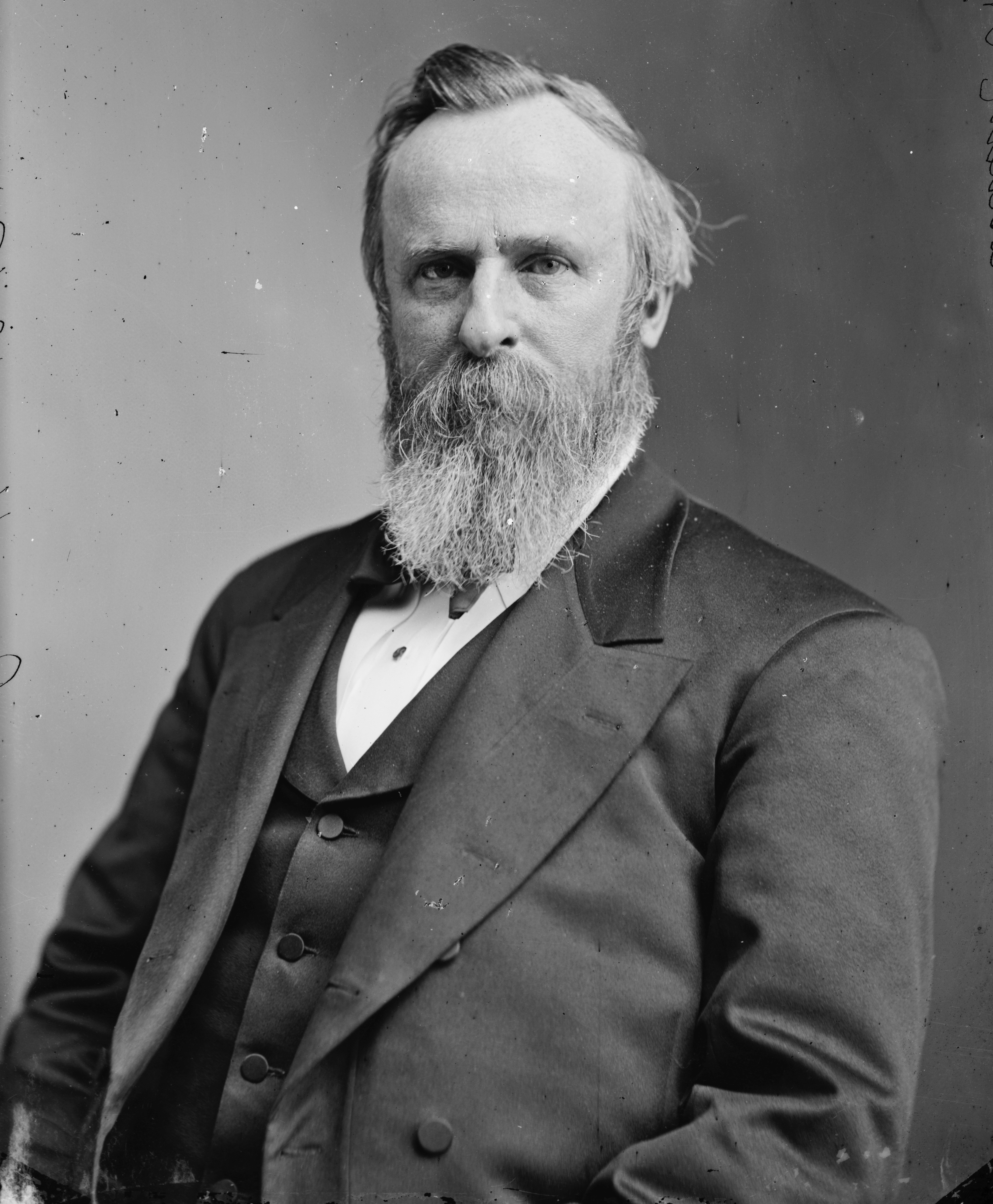 Rutherford B. Hayes, former President of the United States.